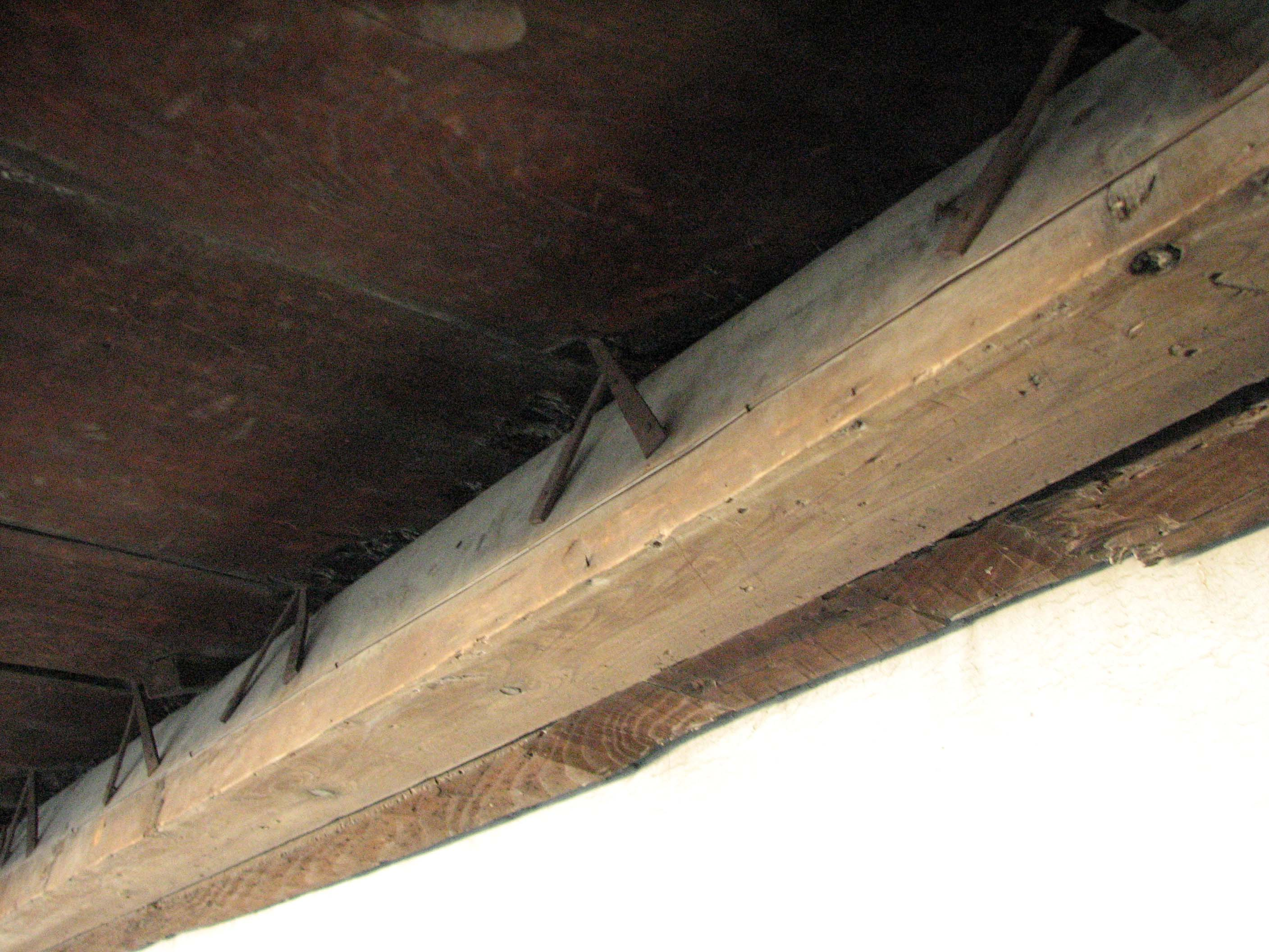 The secret of the squeaky Nightingale Floors - nails. Flickr Tags: Japan Kyoto Nijo Castle castle 二条城 Nightingale floor nails wood security.